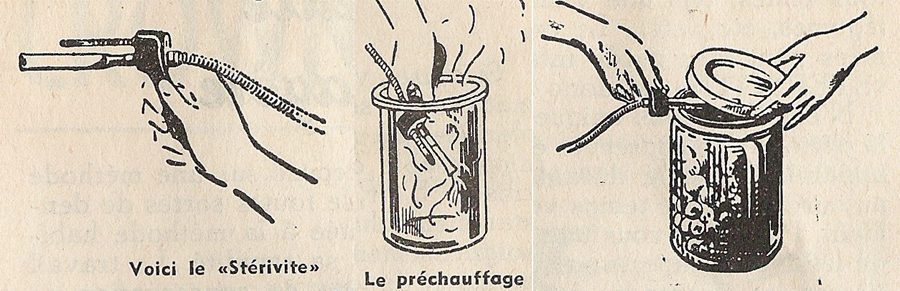 Illustrations of Stérivité. Instructions concernant le merveilleux appareil stérilisateur., brochure advertising of Crown products (agents de Bodart & Co), vers 1940.